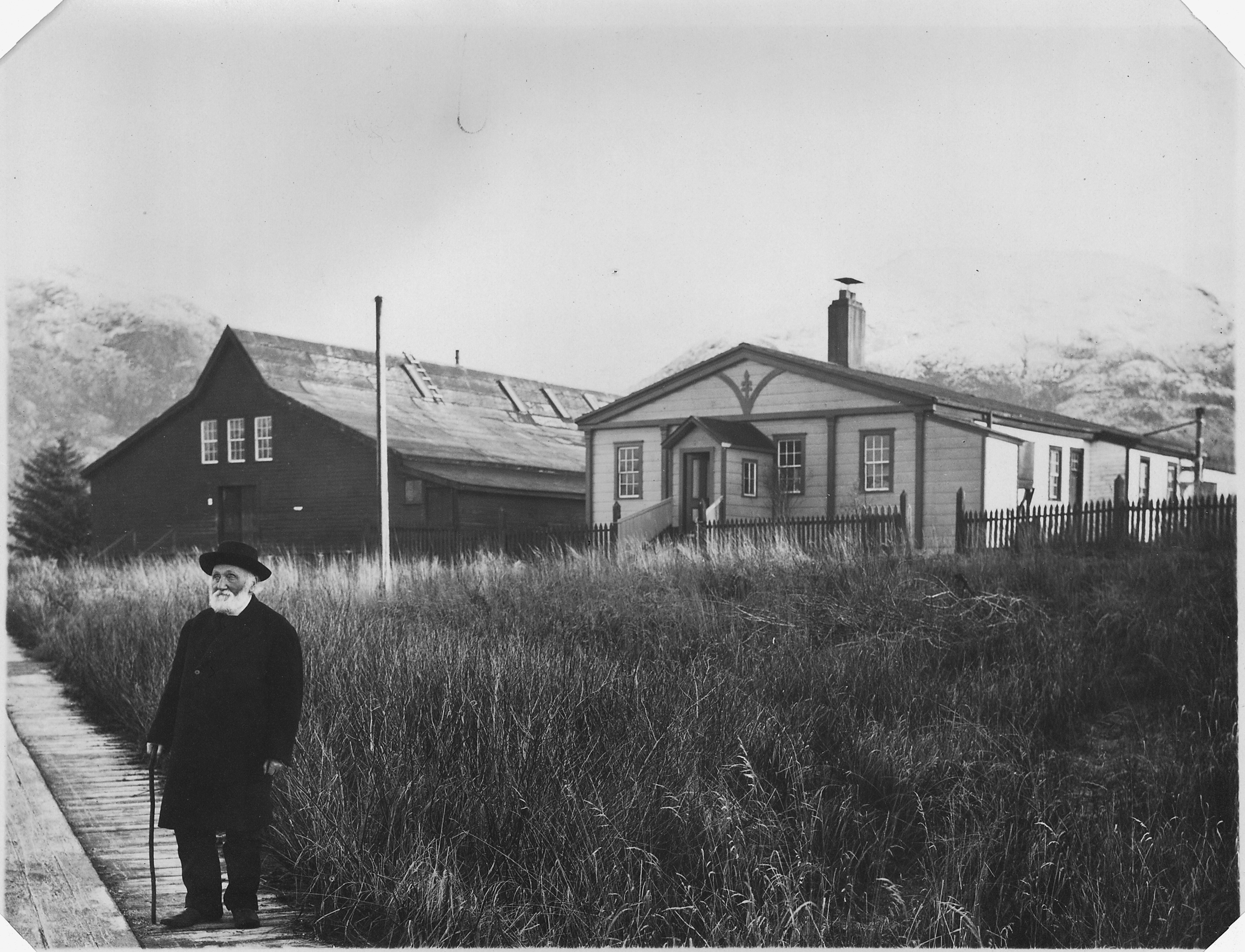 Scope and content: "Taken during 1916-17 visit of H.S. Wellcome by B of K."